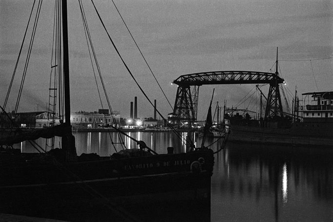 View of the Riachuelo River from Vuelta de Rocha in Buenos Aires. The transporter bridge "Nicolás Avellaneda" is in the background.